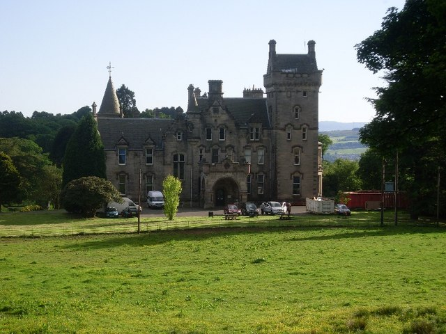 Overtoun House Completed in the mid 19th century as a mansion for wealthy businessman James White, the house is now a Christian Centre. It was used as a filming location for a Channel 4 six-part program in the nineties, called The Young Person's Guide to Becoming a Rock Star.